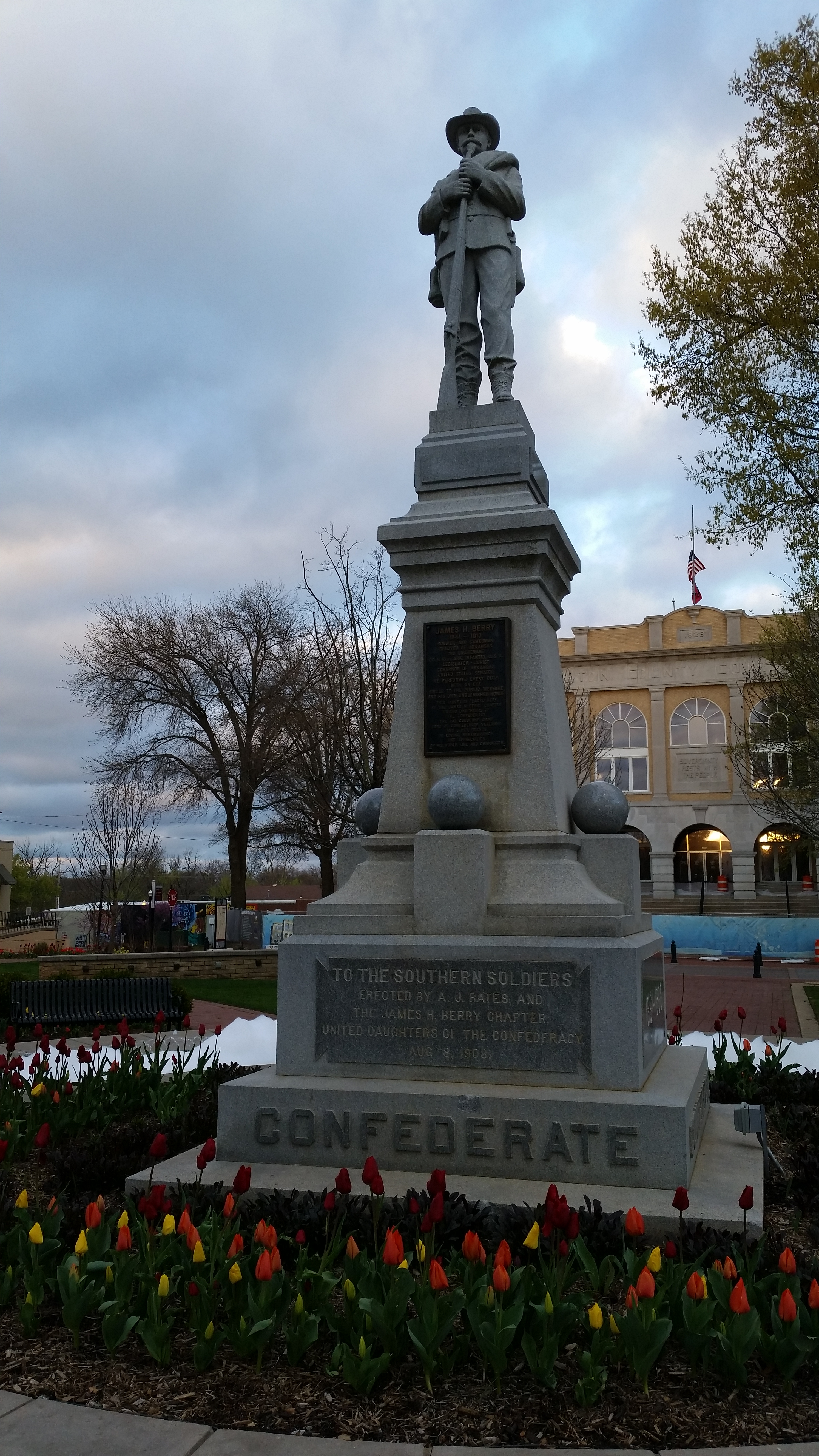 Statue erected in Bentonville Square by United Daughters of the Confederacy. Bentonville, Arkansas